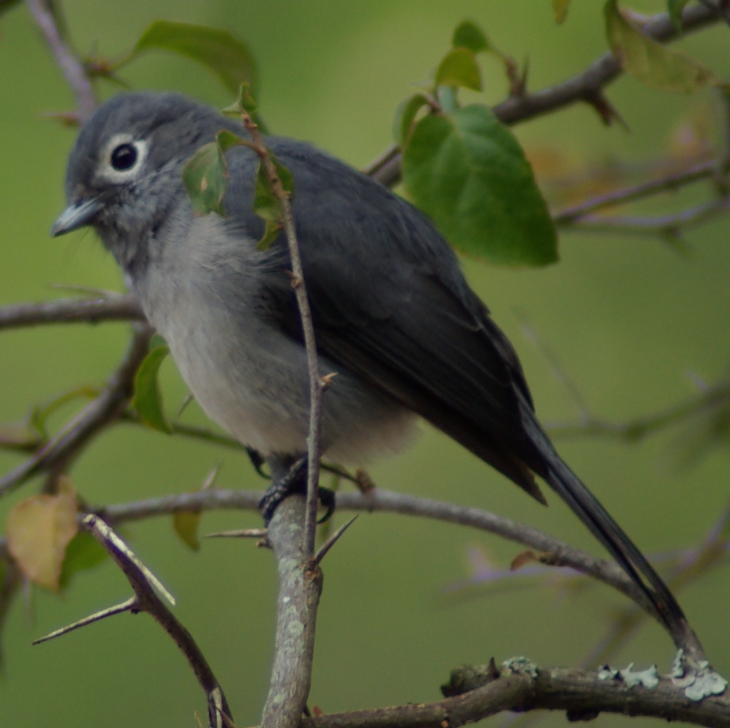 White-eyed Slaty Flycatcher, Melaenornis fischeri fischeri or Dioptrornis fischeri fischeri, near Thomson's Falls, Kenya. The time stamp is 10 hours too early.